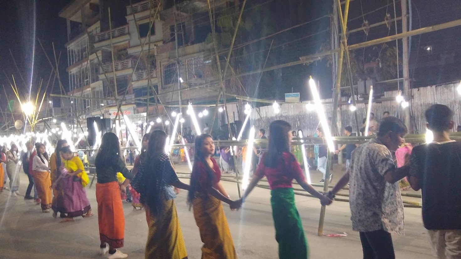 Thabal Chongba dance image at Imphal April 2019